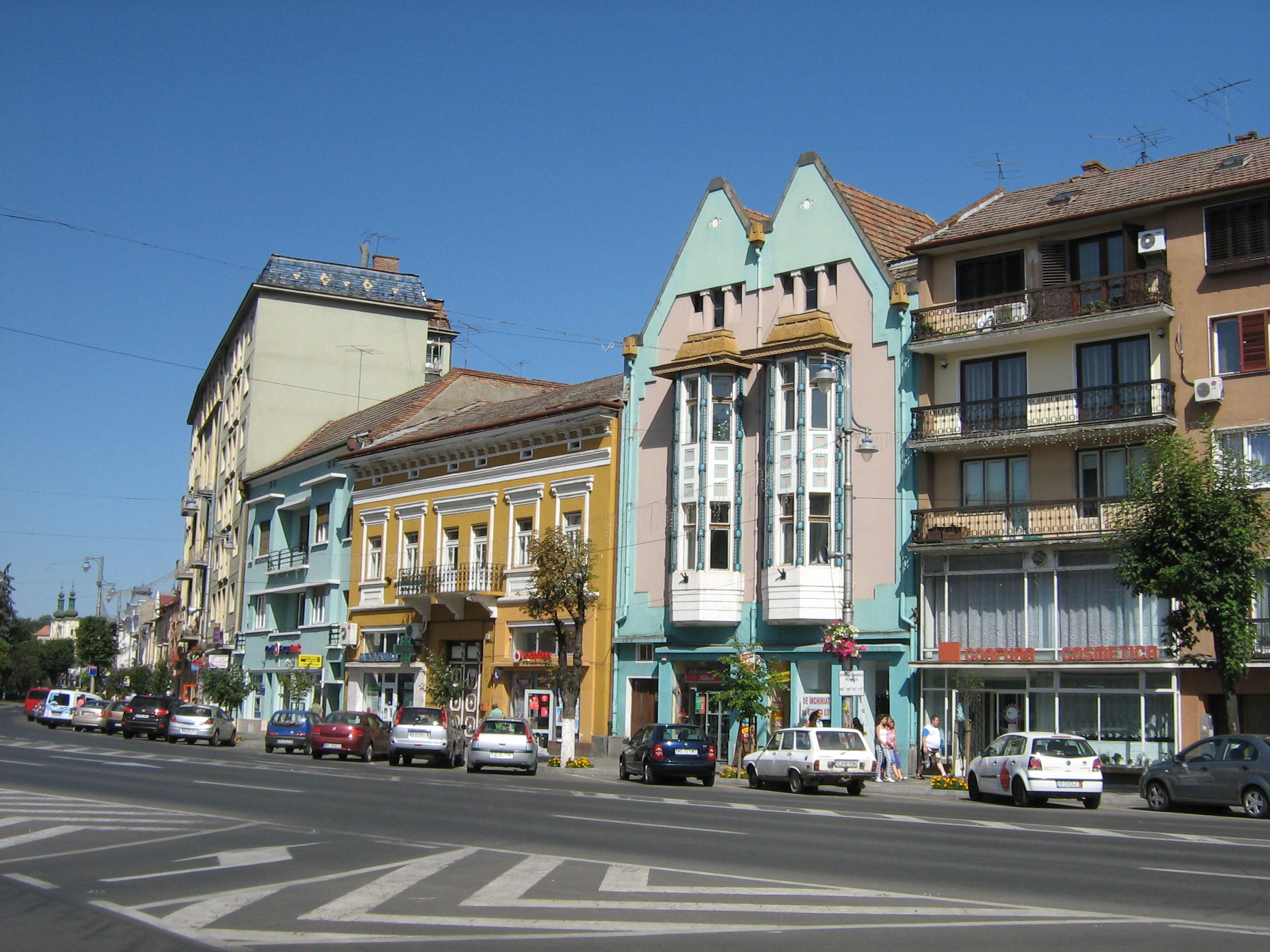 City centre of Targu Mures